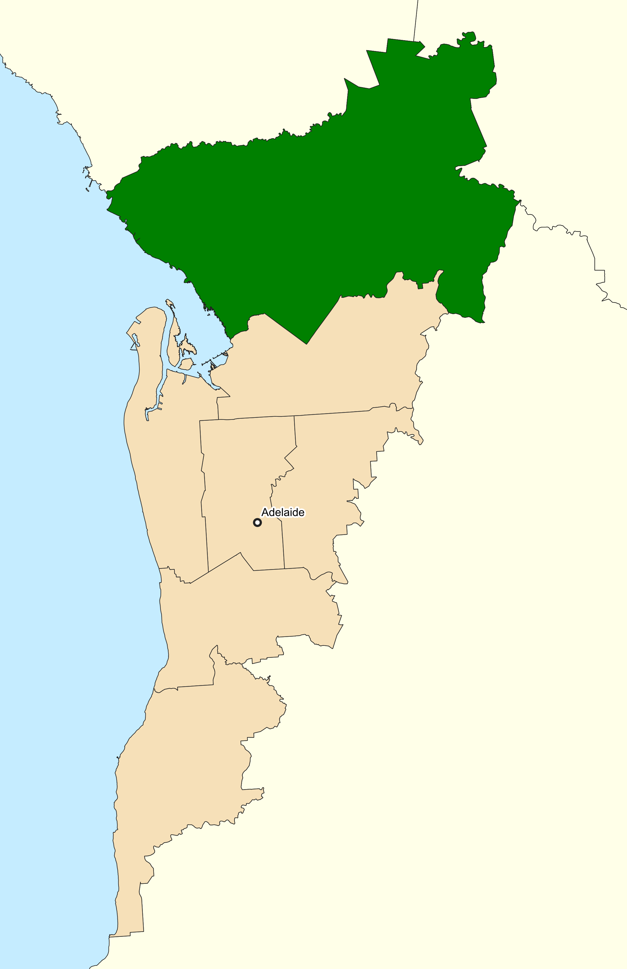 Location of the Australian federal electoral division of Spence (dark green) in Greater Adelaide, South Australia as of the 2019 Australian federal election. Incorporates or developed using Administrative Boundaries ©PSMA Australia Limited licensed by the Commonwealth of Australia under Creative Commons Attribution 4.0 International licence (CC BY 4.0).